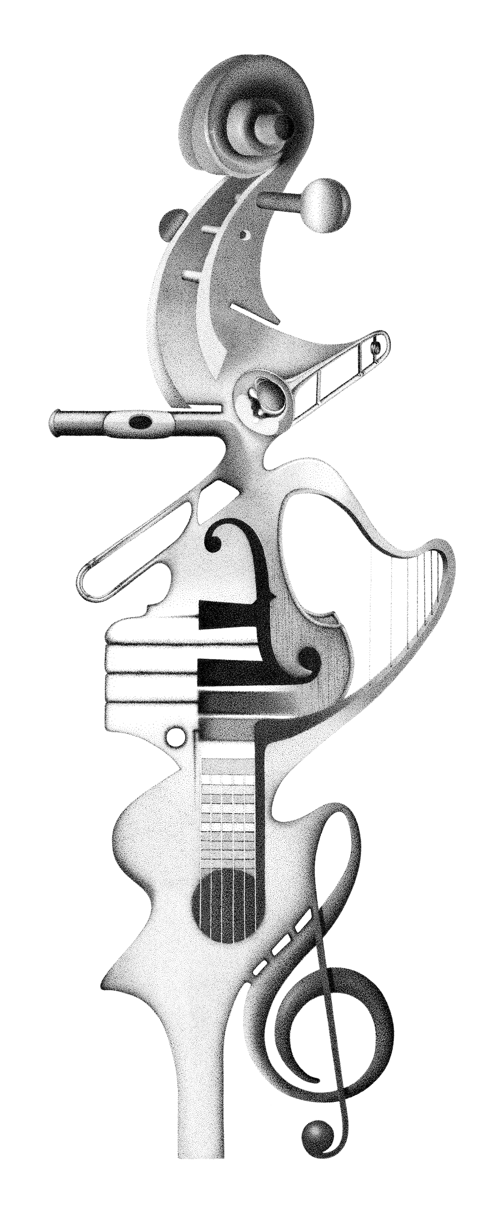 Artwork created by Miguel Endara